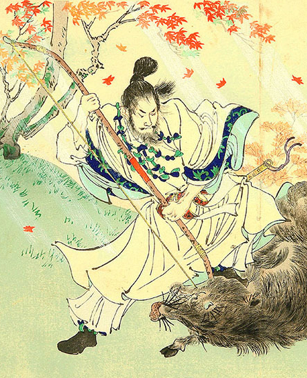 Detail from Emperor and Boar, by Ginko Adachi. Woodblock print depicting a hunting scene, where Emperor Yūryaku (later half 5th century) overpowers a large wild boar at Mount Katuragi in 461 AD.